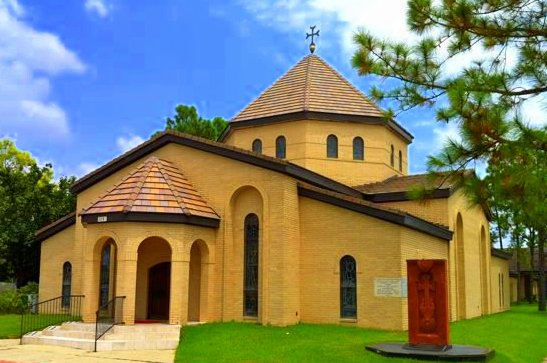 St. Kevork Armenian Church - 3211 Synott Rd, Houston, TX 77082